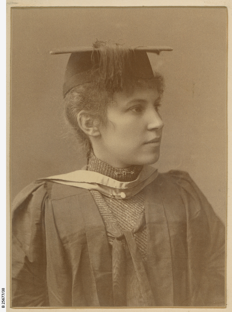 Edith E. Dornwell, graduate and former student of the Advanced School for Girls